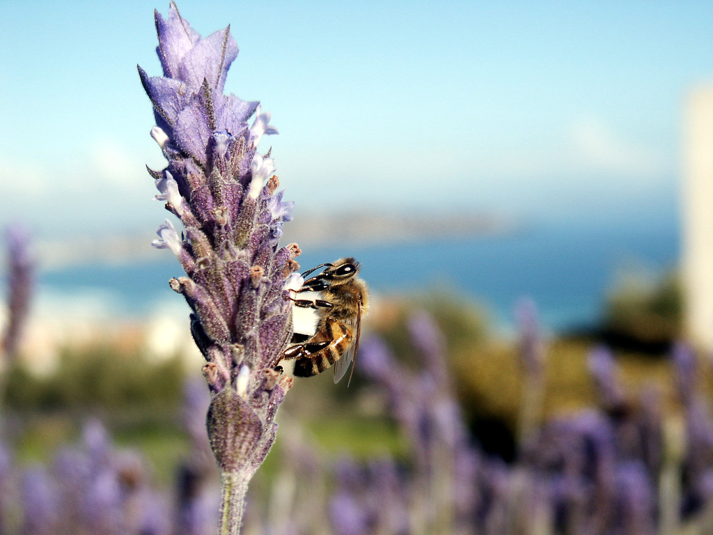 Killer Bee over Lavanda bush at Puerto Velero (Chile)